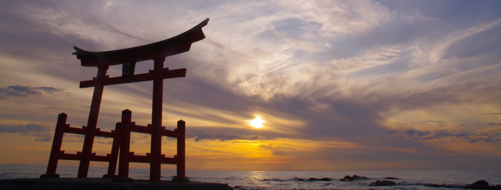 A crop of the image File:Shosanbetsu konpira.JPG.